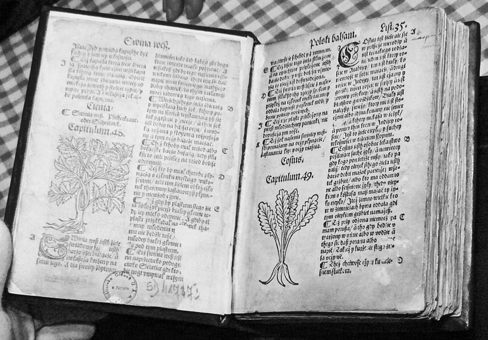 Stefan Falimirz - "O ziołach i mocy ich" - first polish Herbarium, 1534. Poznań - Library of UAM.